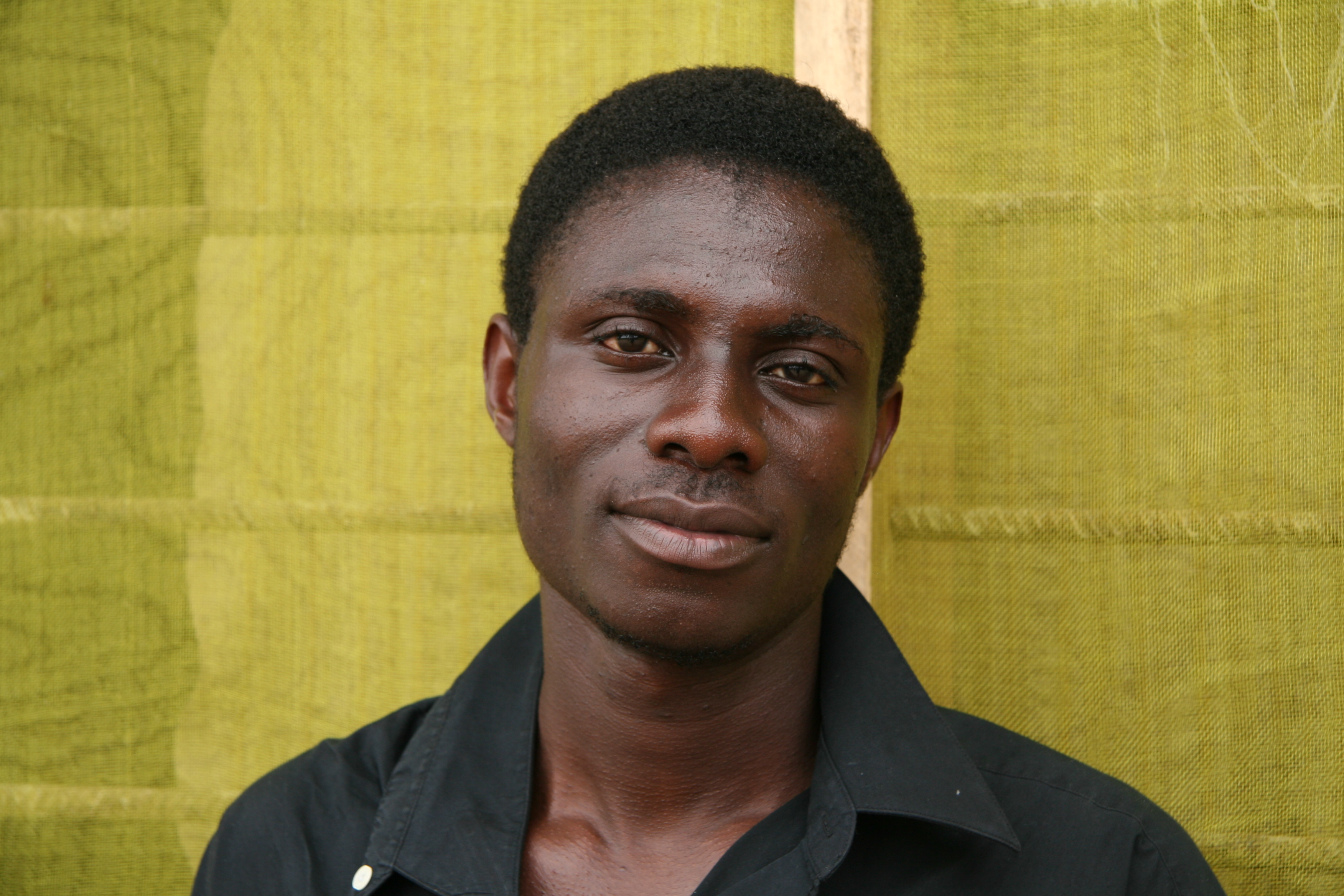 Portrait Kudjoe Affutu, Ghanaian Coffinmaker